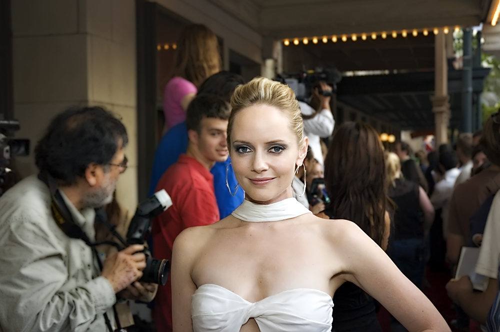 Actress Marley Shelton at the premiere of Grindhouse, Austin, Texas.